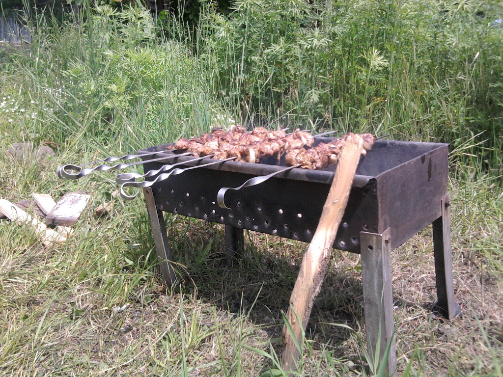 Shashlyks